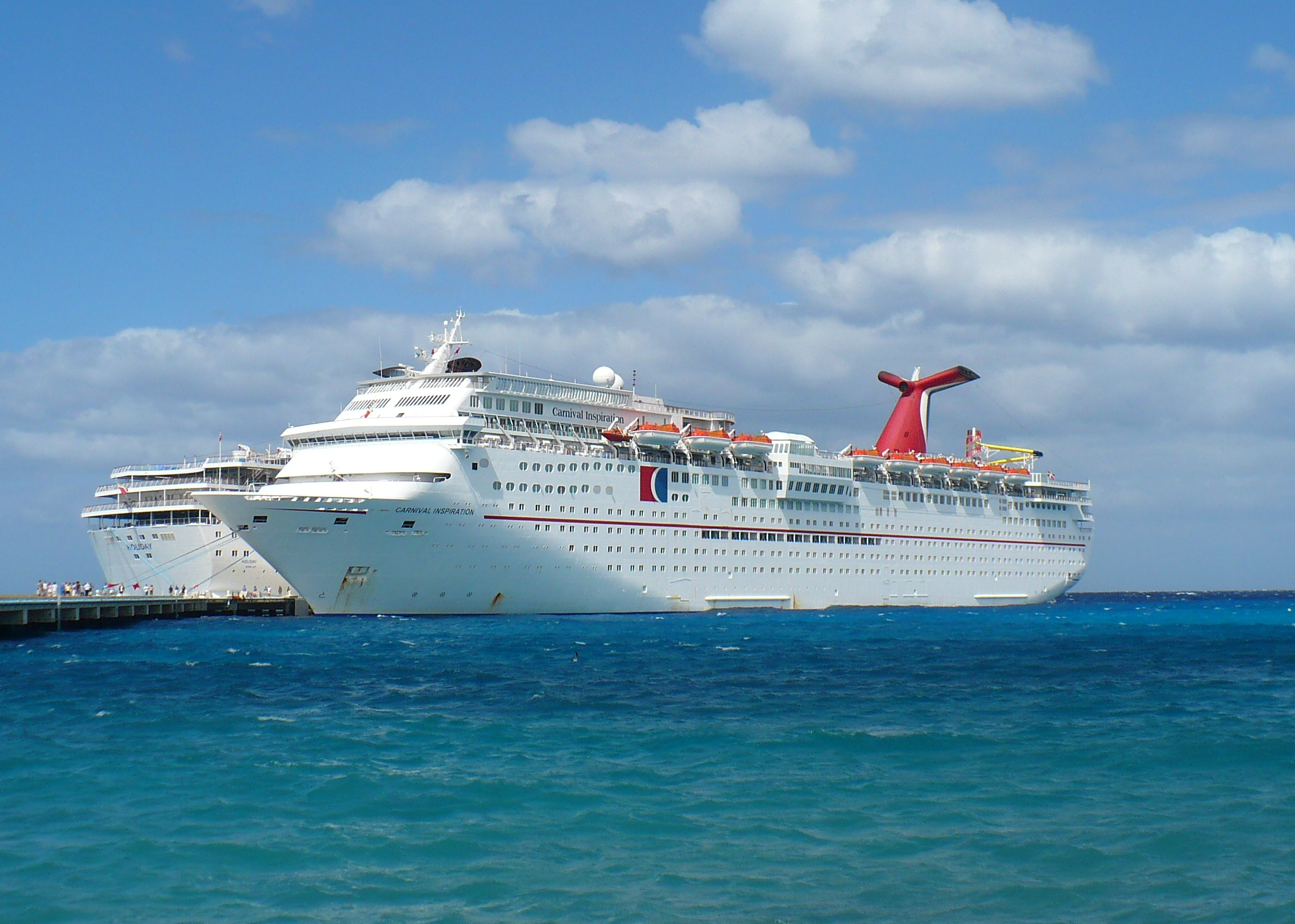 View of the Carnival Inspiration. Taken at Cozumel.